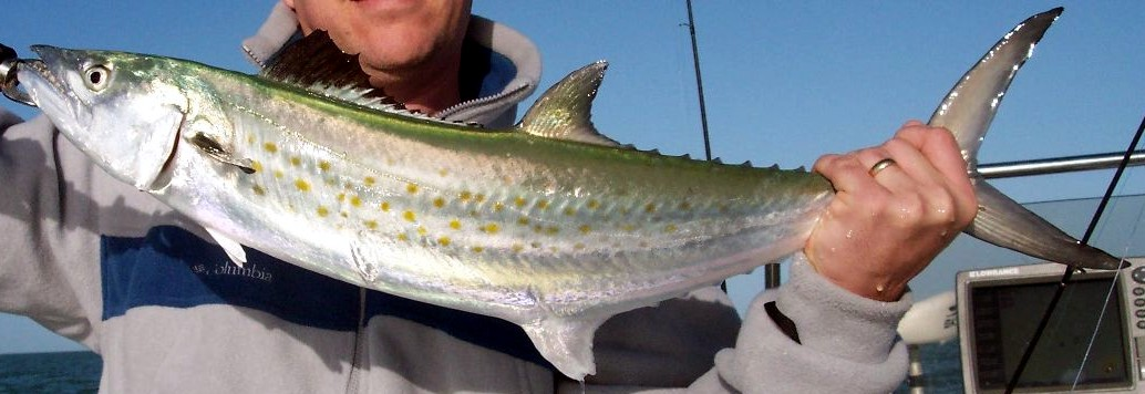 Spanish Mackerel - this one is about 27 inches Description: color of back green, shading to silver on sides, golden yellow irregular spots above and below lateral line; front of dorsal fin black; lateral line curves gently to base of tail. Similar Fish: cero, S. regalis; king mackerel, S. cavalla. Where found: INSHORE, NEARSHORE and OFFSHORE, especially over grass beds and reefs; absent from north Florida waters in winter. Size: average catch less than 2 pounds (20 inches). Florida Record: 12 lbs. Remarks: schooling fish that migrates northward in spring, returning to southerly waters when water temperature drops below 70 degrees F; spawns OFFSHORE, spring through summer; feeds on small fish and squid.